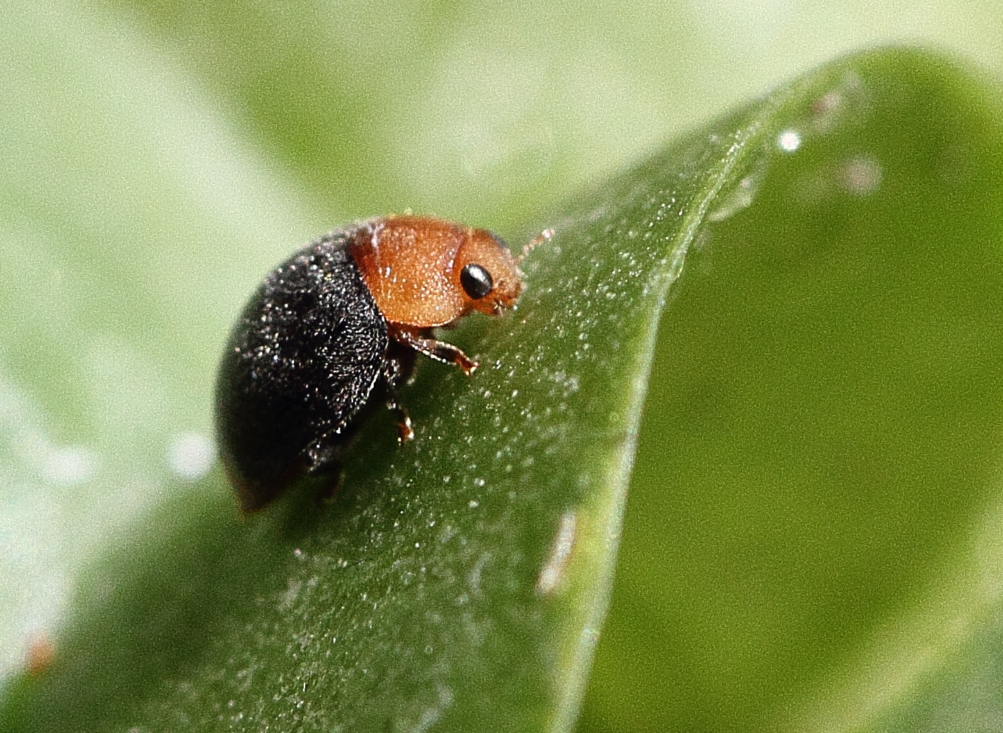 "Australischer Marienkäfer" purchased from Neudorff to fight mealybugs. Picture was taken inside the house. The beetle is sitting on a phalenopsis leaf.